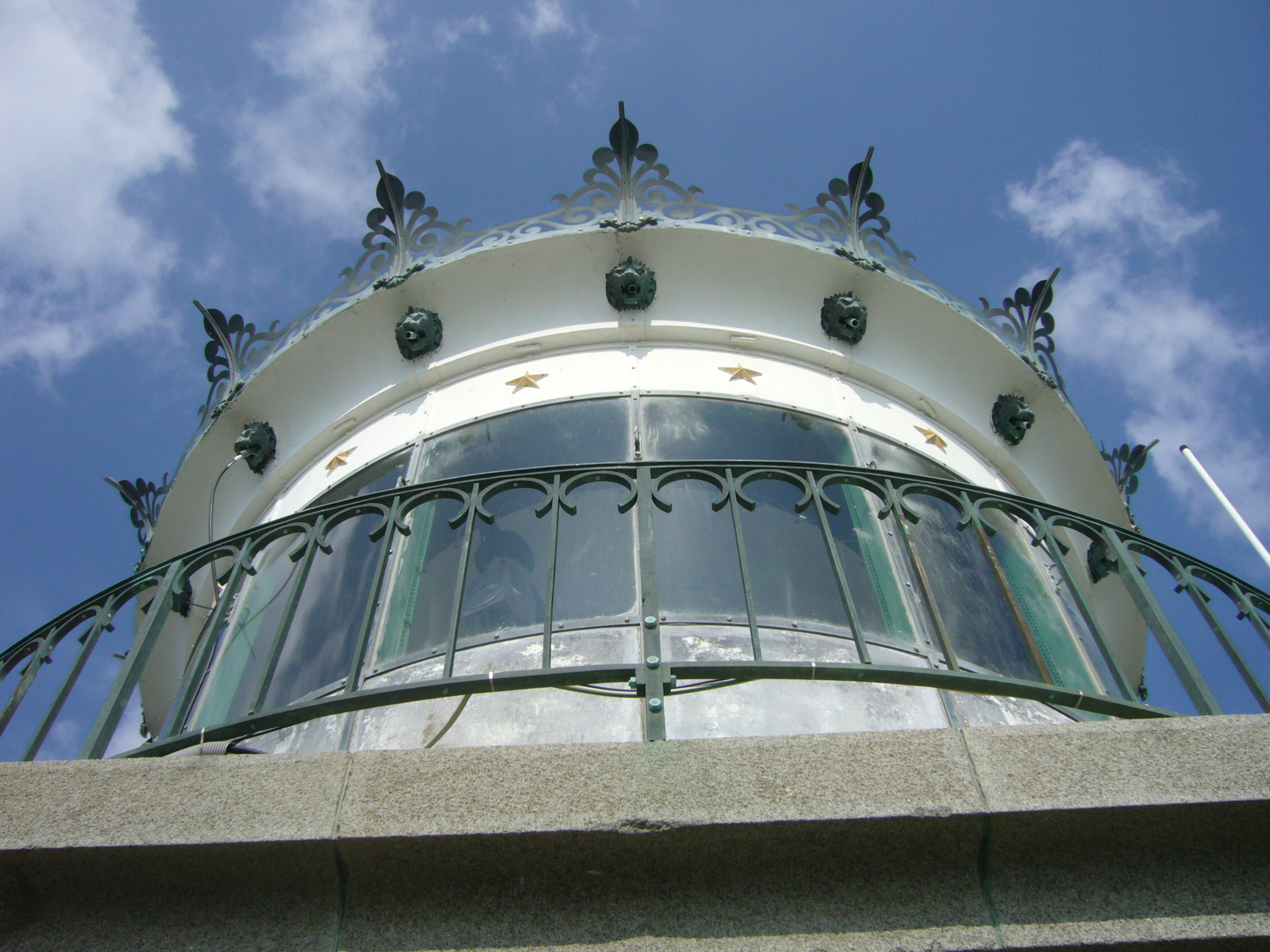 Eckmühl lighthouse's lantern.